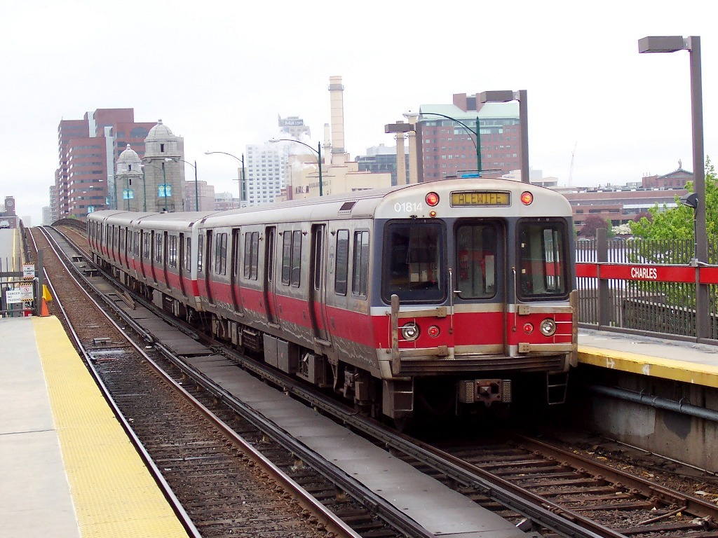 MBTA Red Line train going outbound over the Longfellow Bridge towards Alewife, leaving Charles/MGH station